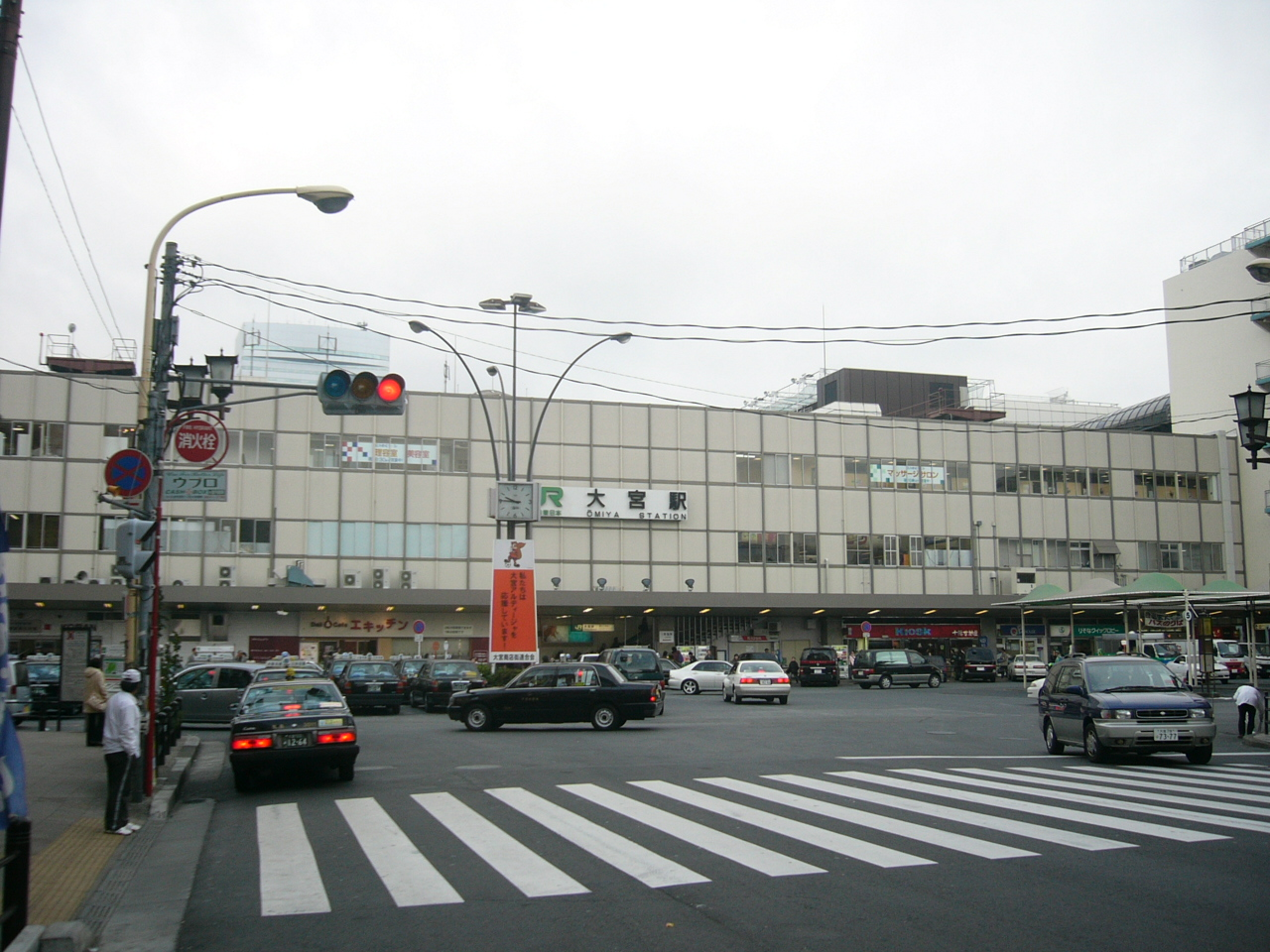 Omiya Station (East Entrance)